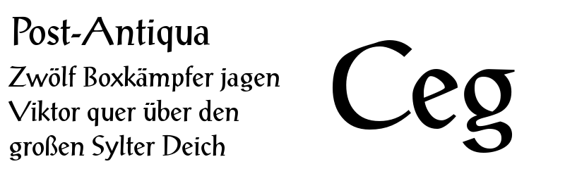 german pangram in typeface Post-Antiqua